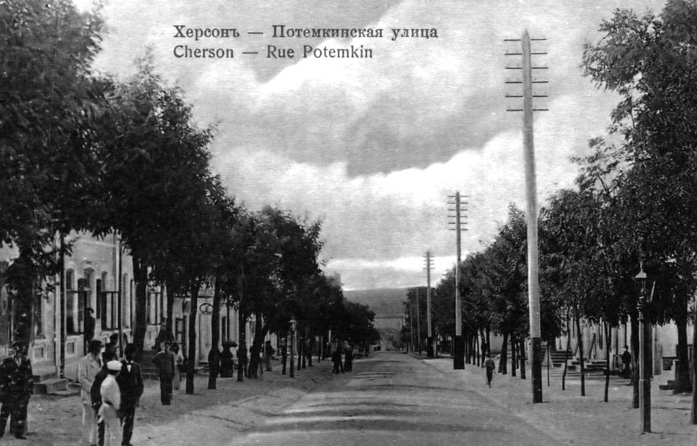 Potyomkin Street in Herson. Pre-1917 postcard